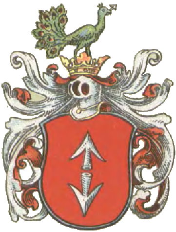 Bogoria coat of arms by Zbigniew Leszczyc published in "Herby szlachty polskiej"